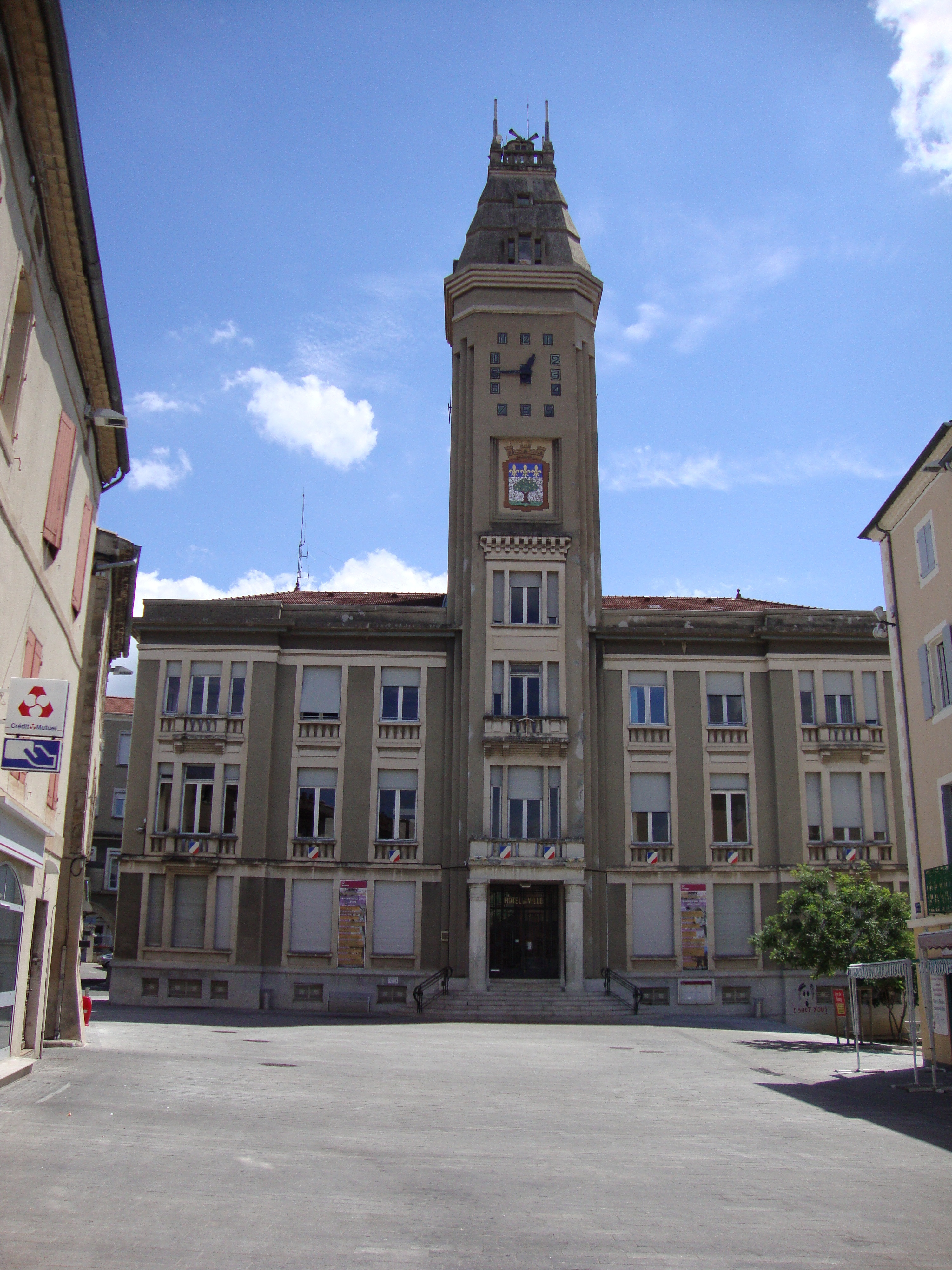 Privas (Ardèche, Fr) town hall